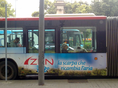 Image depicting an advert in Italian on a bus in Barcelona (Plaça Catalunya) in 2011.